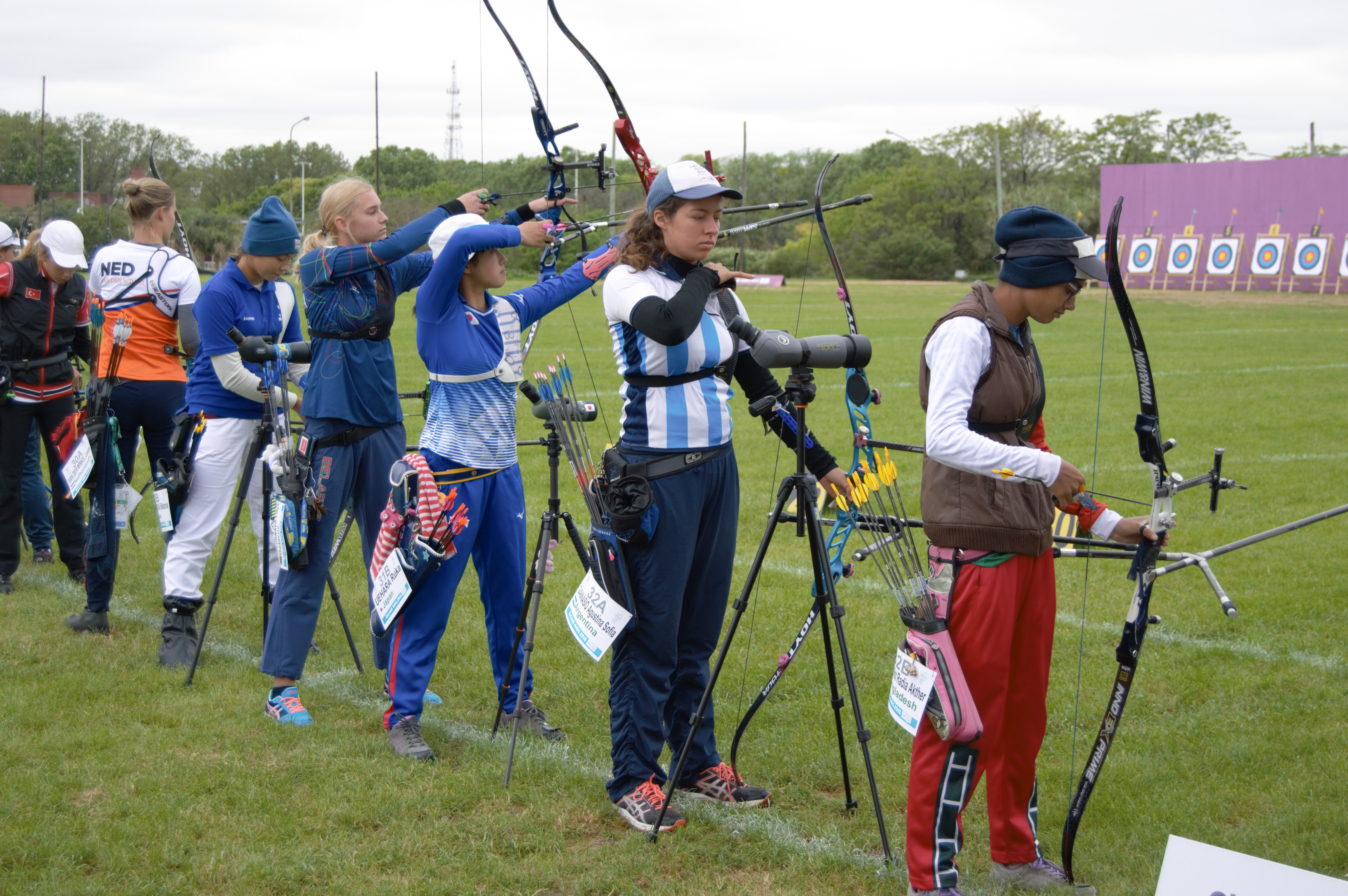 Archery at the 2018 Summer Youth Olympics. Men's/Women's Recurve Individual Ranking Round – Mixed International Team Ranking Round.